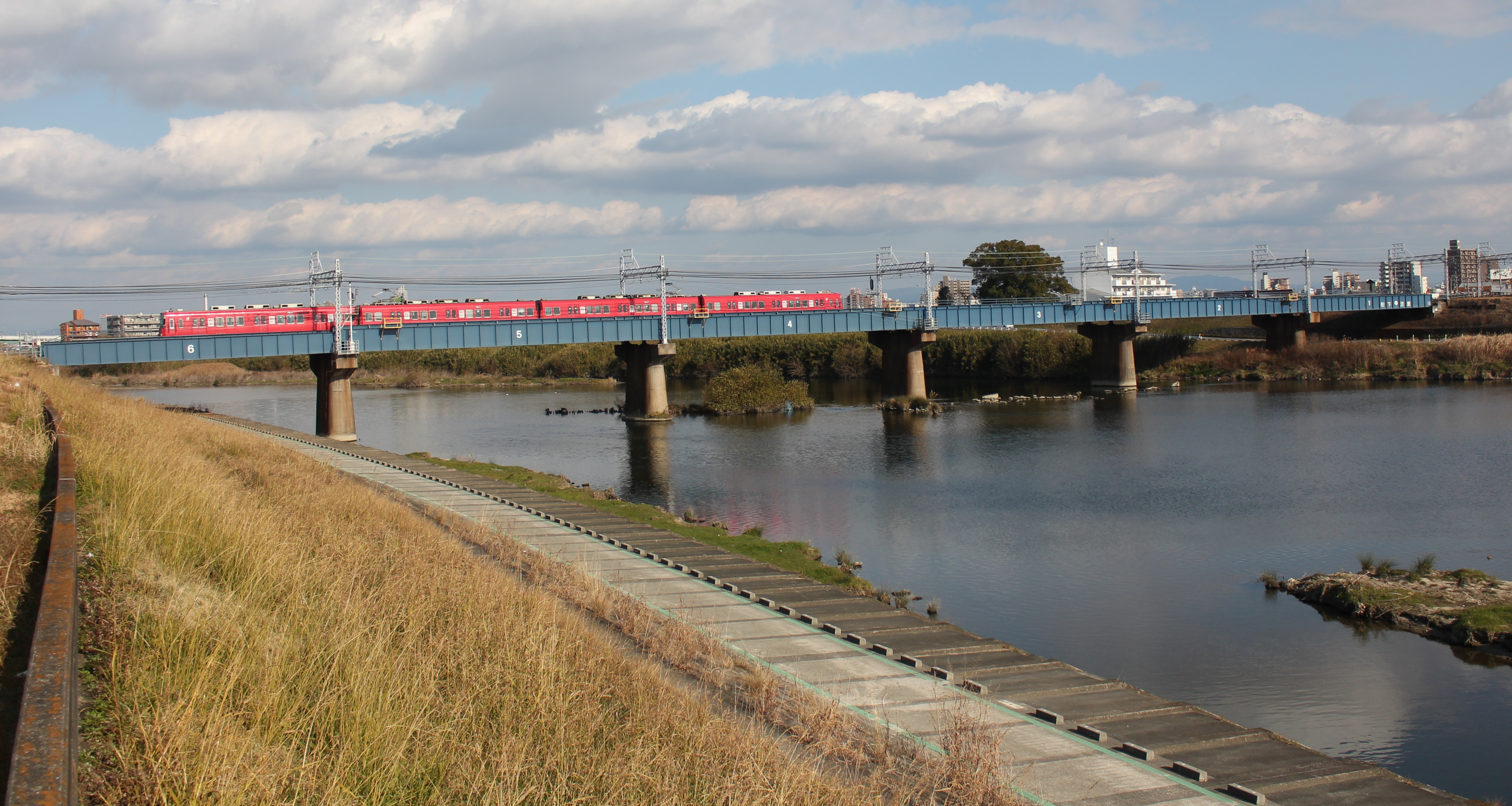 Shonaigawa Bridge of Meitetsu Nagoya Main Line in Aichi prefecture, Japan.